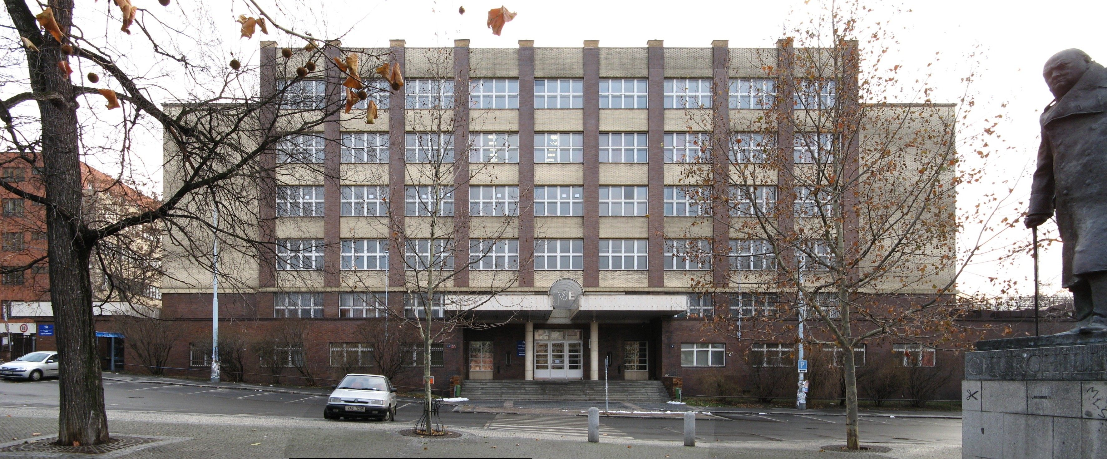 University of Economics, Prague, earlier the Prague School of Economics, Winston Churchill Square